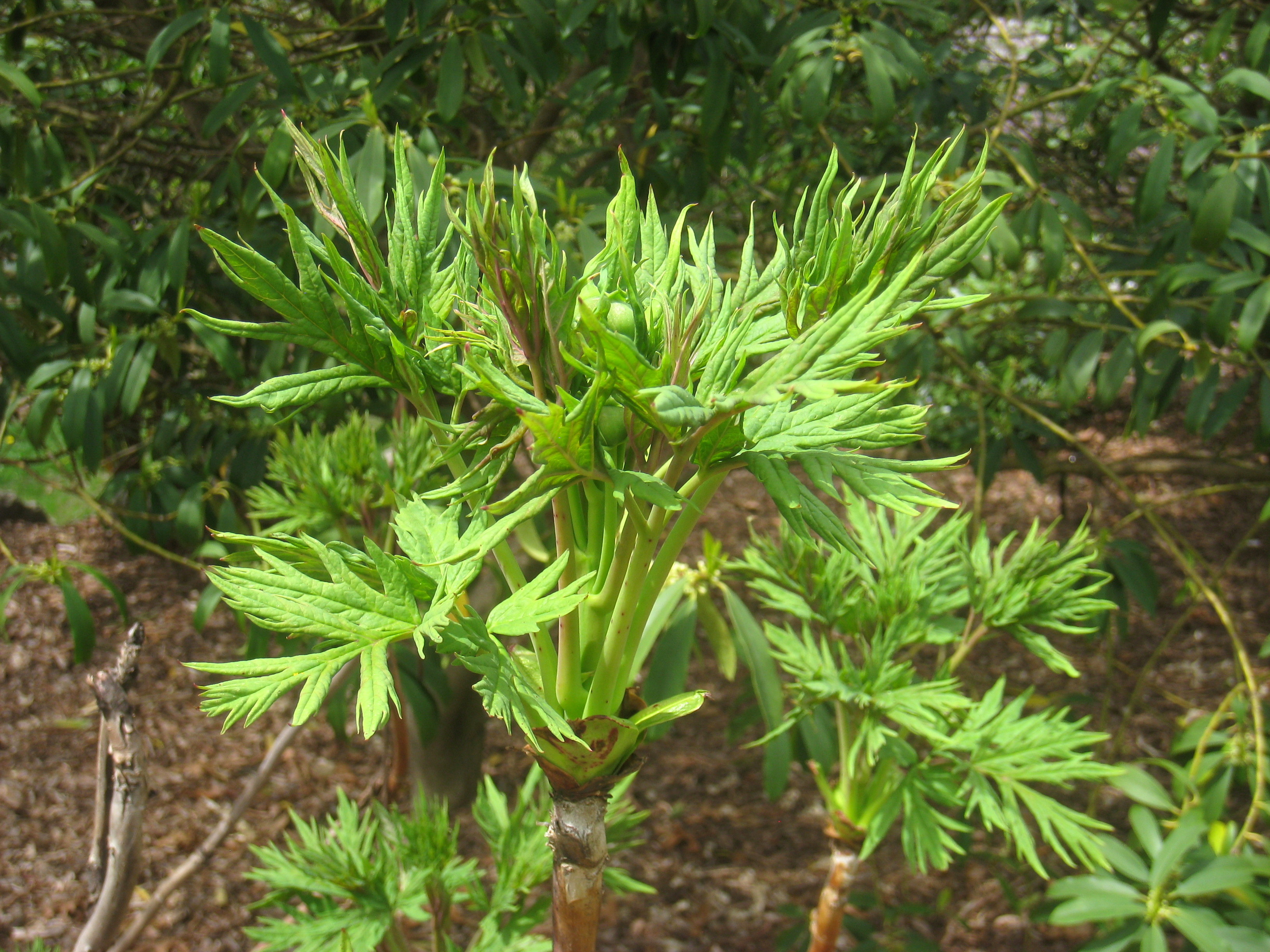 Paeonia ludlowii, Arnold Arboretum, Jamaica Plain, Boston, Massachusetts, USA.